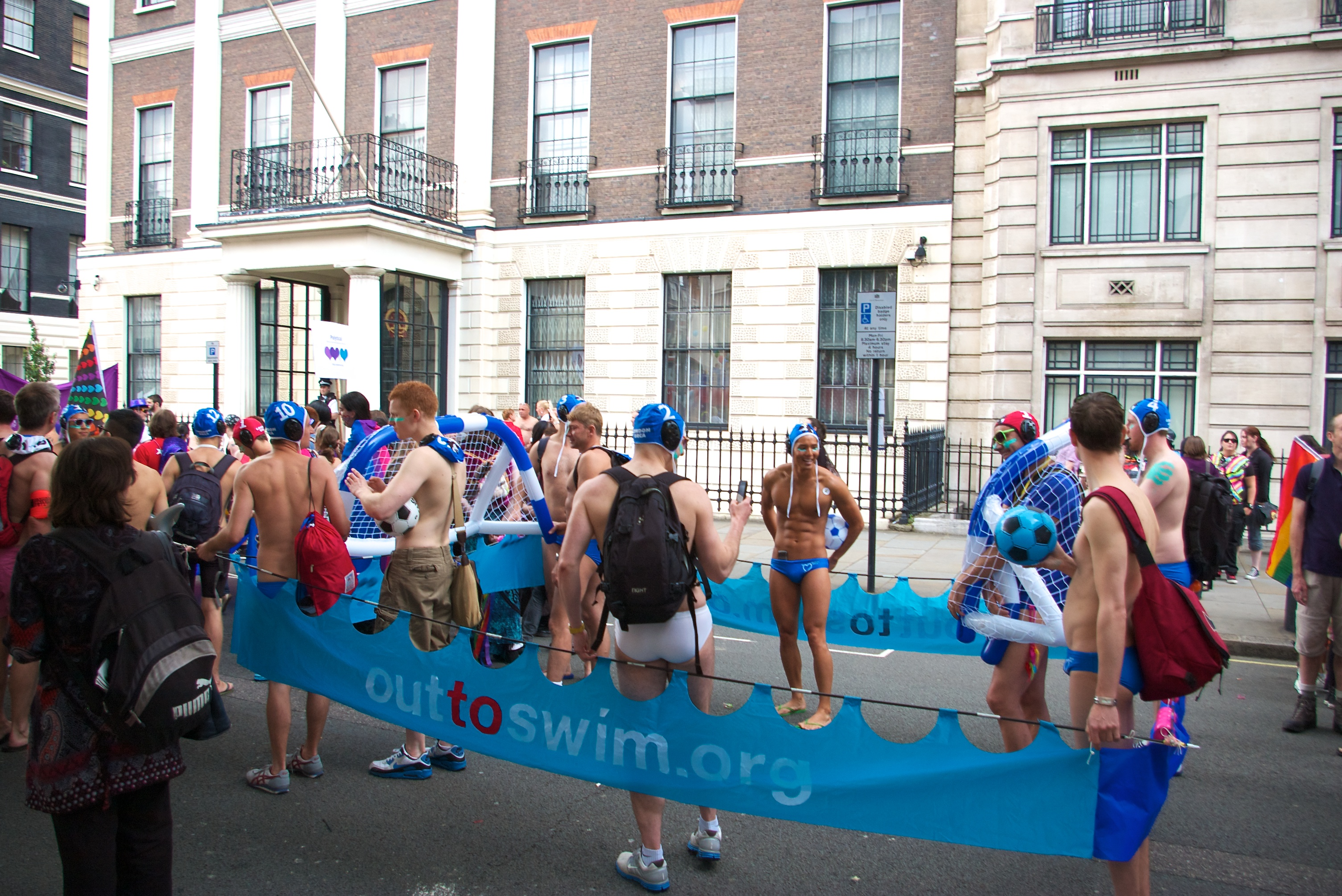 'Out to Swim', a gay swimming and water polo group, at Pride London 2011, near Portland Place.